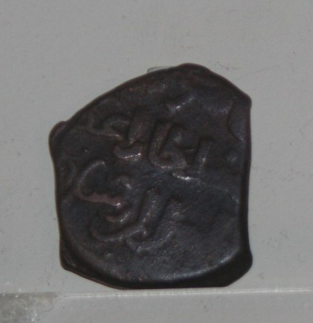 Copper fulus of Korpa Arslan Aksungurid